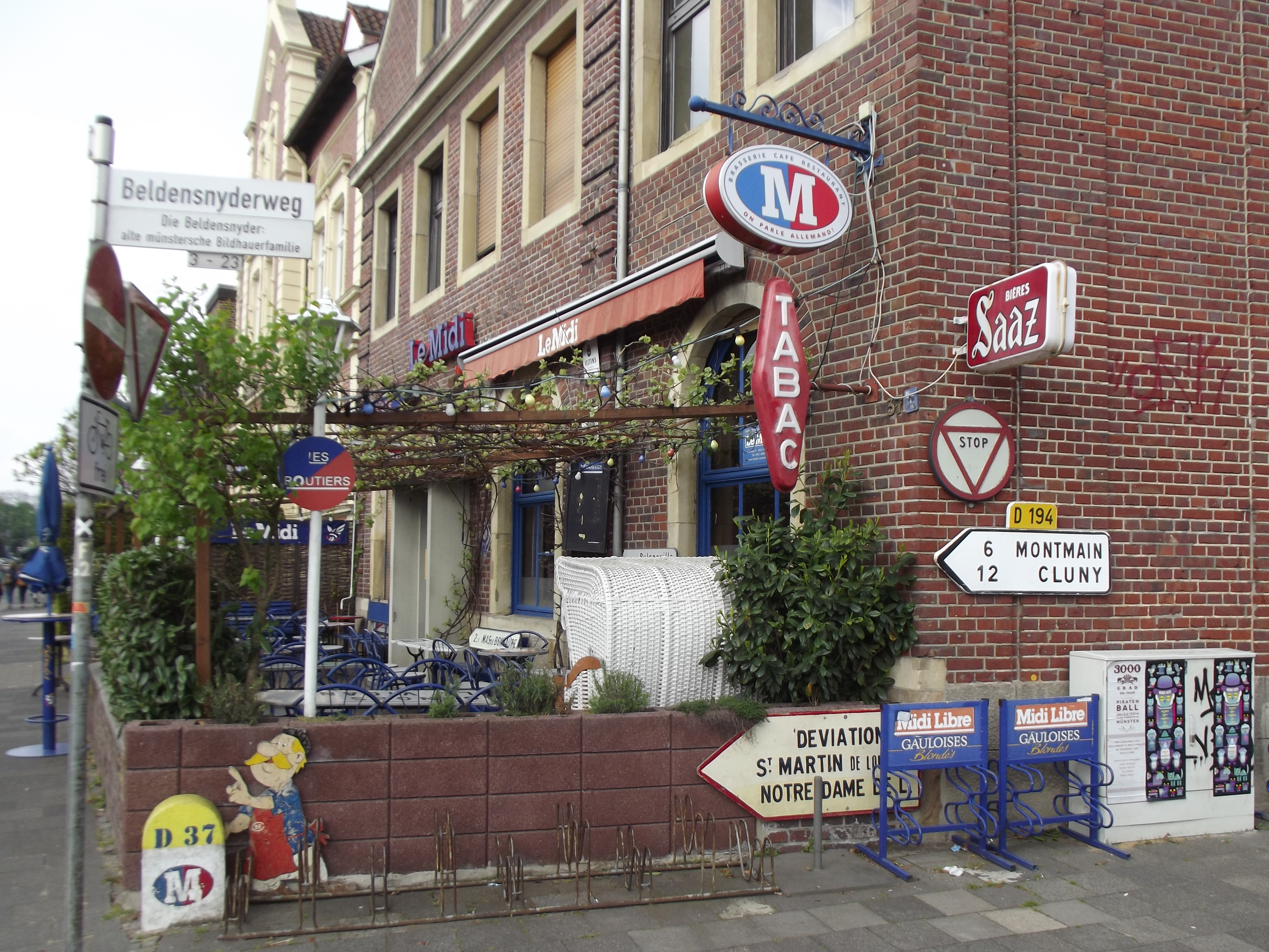 A very francophile restaurant in Münster, Also the meeting point of a round table called "Club Voltaire"